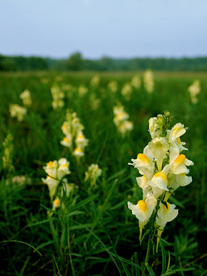 Common toadflax